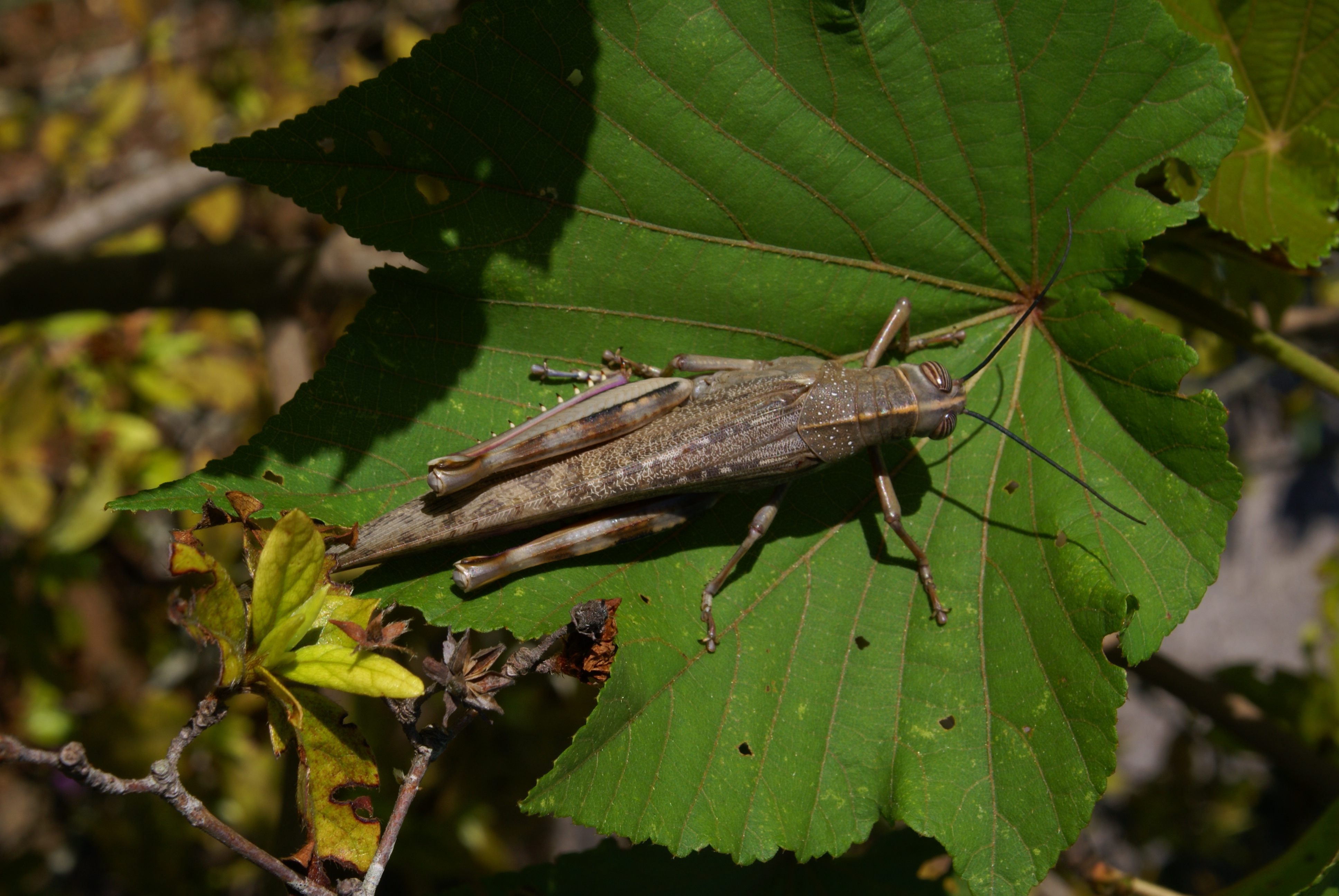 tree locust (Anacridium melanorhodon ssp. arabafrum) [species identification to be checked] on a Dombeya acutangula leaf, on Réunion island